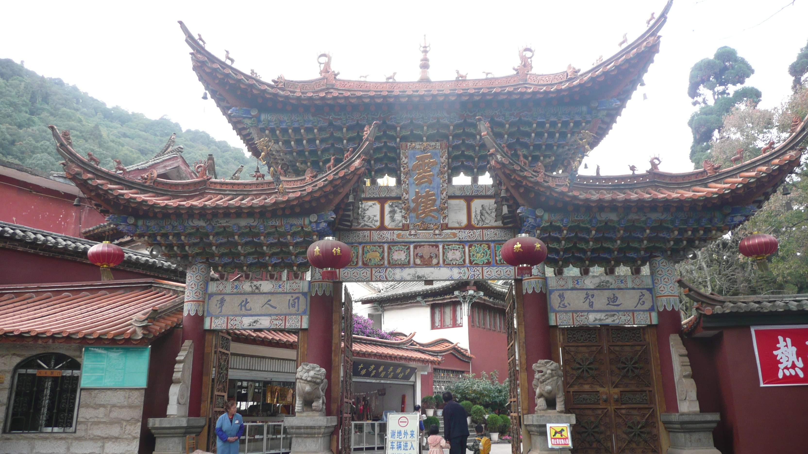 Huating Temple in the Western Mountains (Xishan) of Kunming